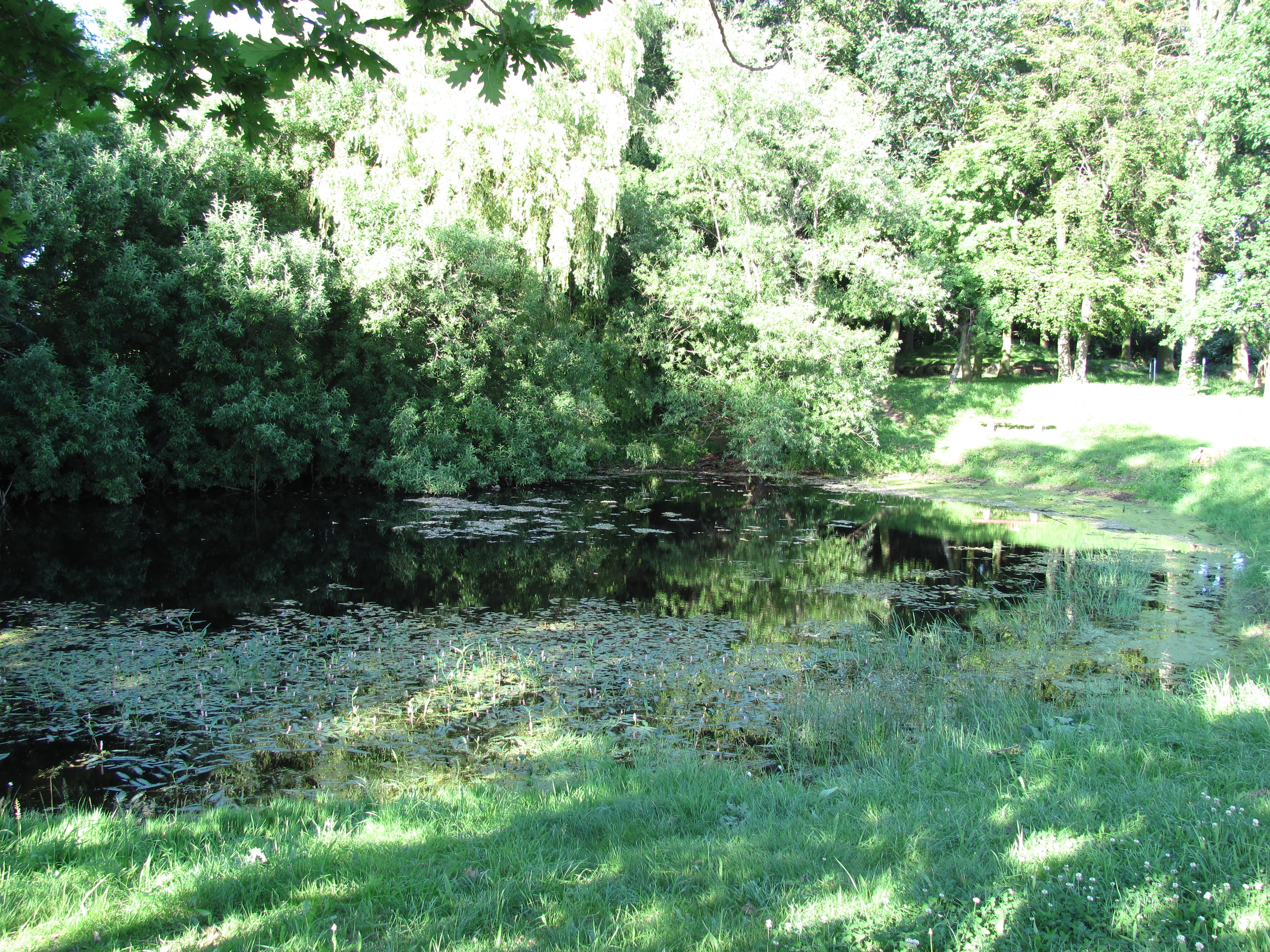 Pond "Ratssoll", Petersdorf, Fehmarn